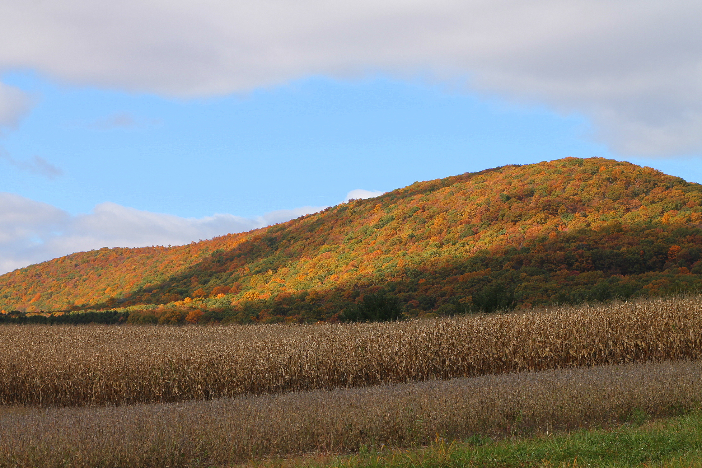 Buck Mountain, a mountain in Pennsylvania, from the southeast